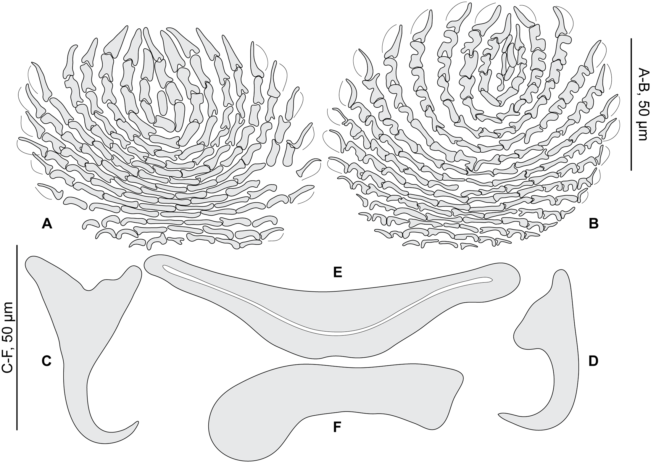 Figure 5 of paper Pseudorhabdosynochus bouaini from Mycteroperca costae, squamodiscs and haptoral parts A, B, squamodiscs (A, ventral; B, dorsal). C-F, haptoral parts (C, ventral anchor; D, dorsal anchor; E, ventral bar; F, lateral bar). All, MNHN HEL562, Tunisia, Berlese.